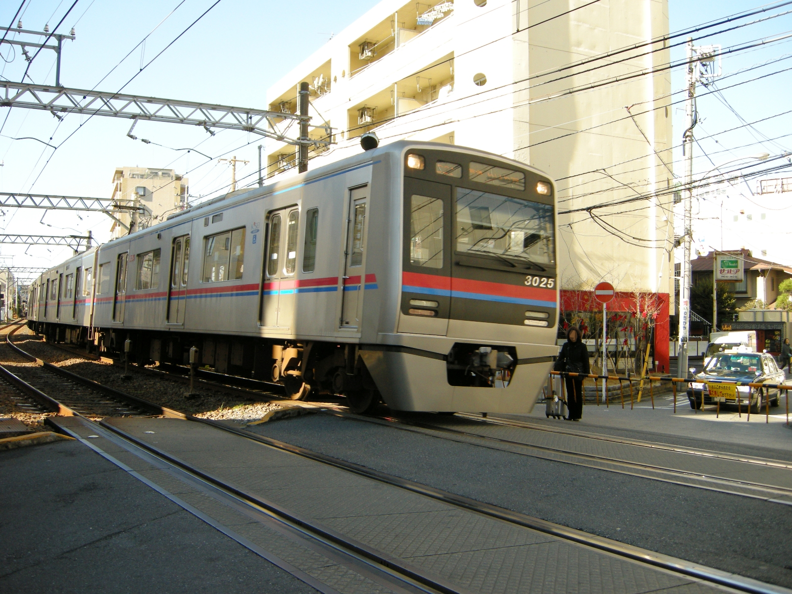 Keisei Electric Railway Series N3000 EC on Keisei Chiba Line between Shin-Chiba and Keisei-Chiba Stations)